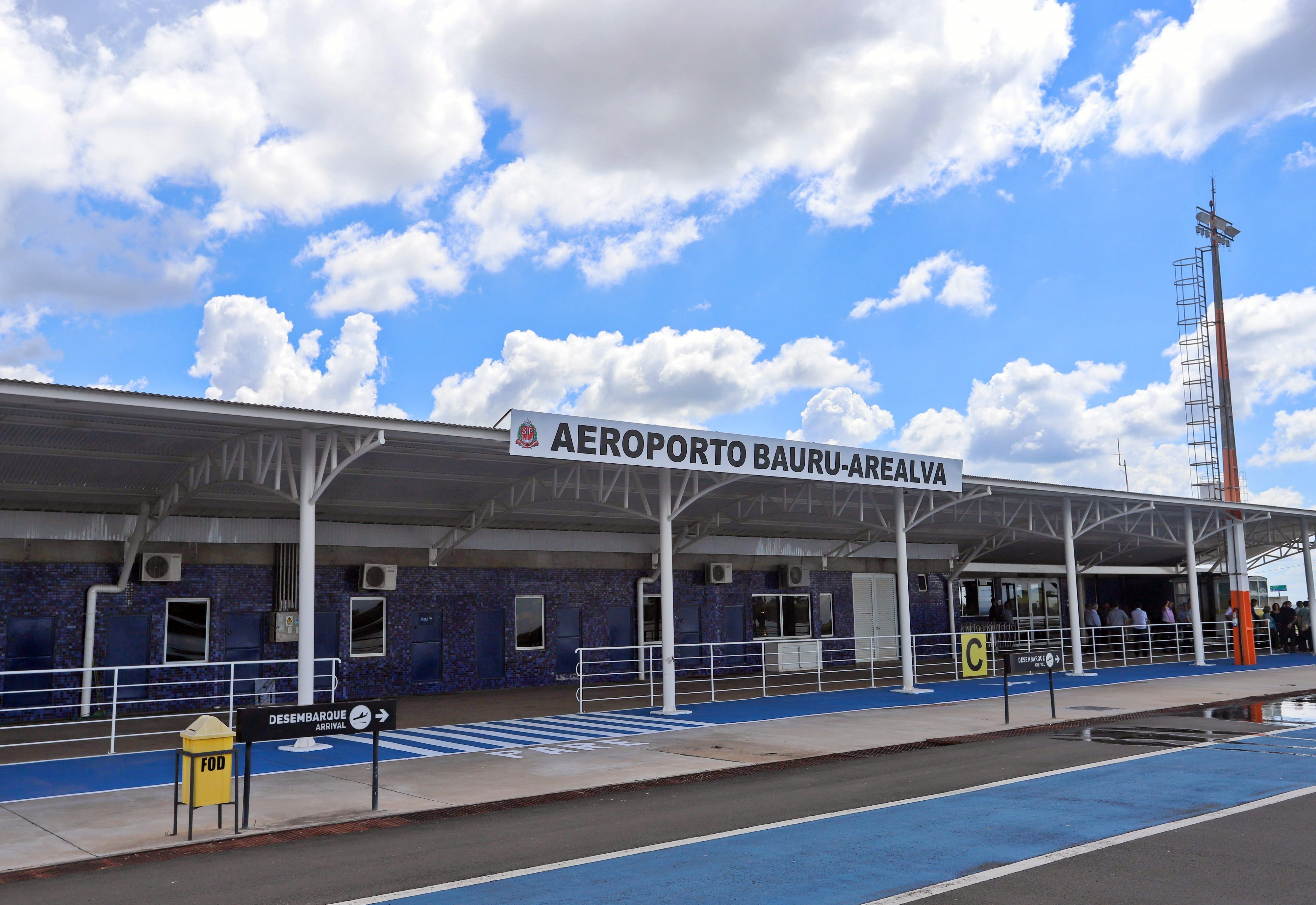 O secretário de Estado de Logística e Transportes, Laurence Casagrande Lourenço, particpa da cerimônia de entrega das obras de cobertura externa e melhorias do Aeroporto de Bauru/Arealva. Local: Bauru/SP Data: 17/03/2018 Foto: Governo do Estado de São Paulo